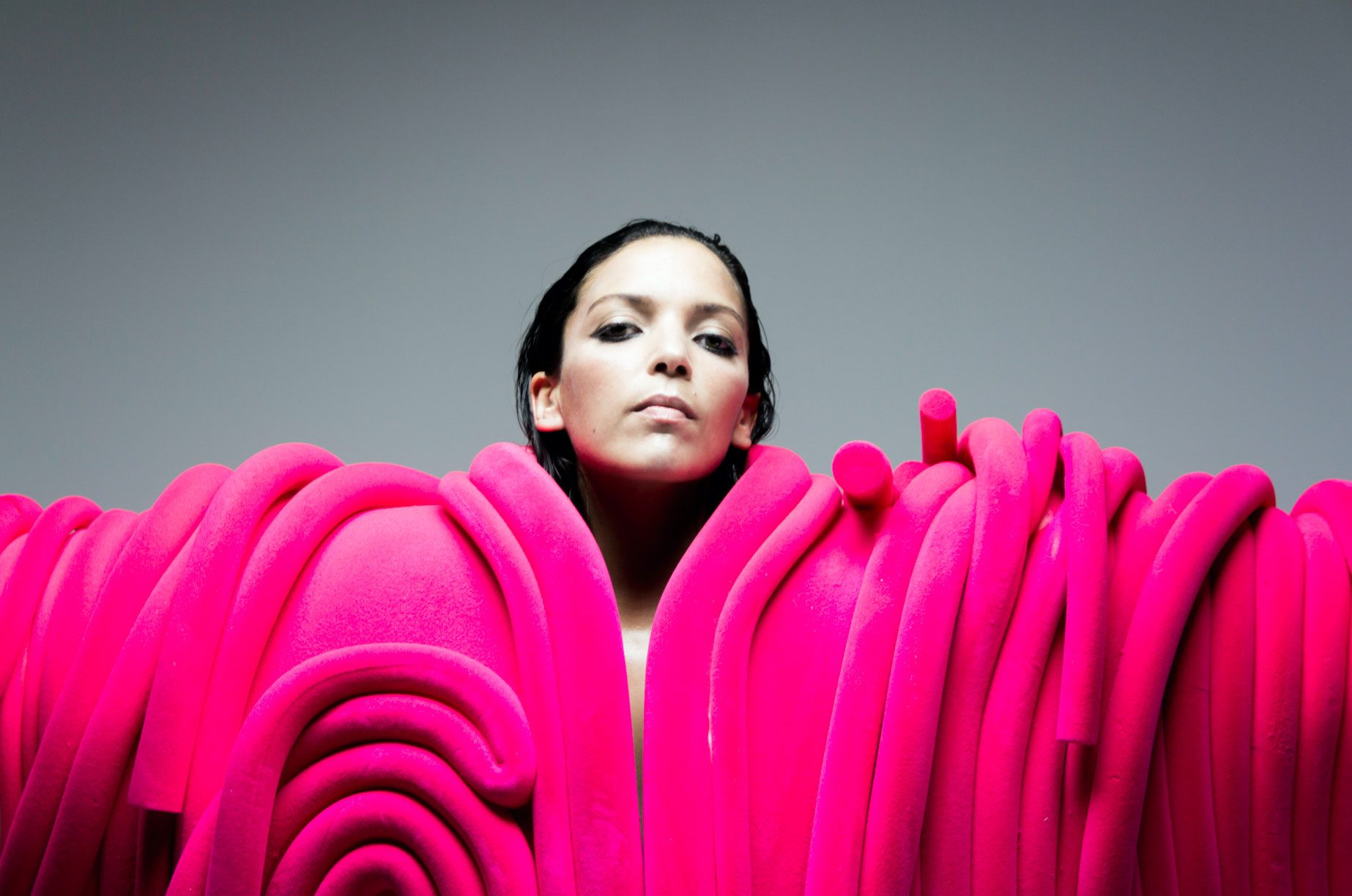 Sarasara in Liam Rhys Johnson